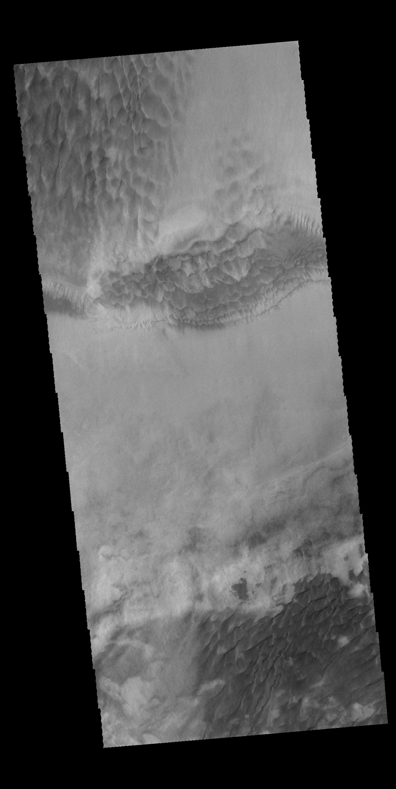 Dunes in the inner and main crater of the Hook crater in Argyre Planitia.